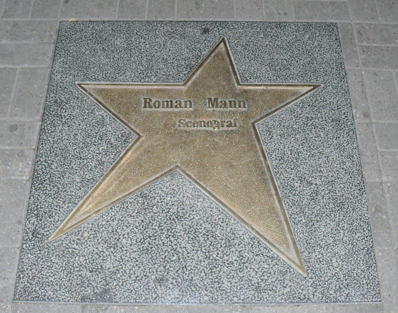 Łódź Walk of Fame - scenograf Roman Mann.